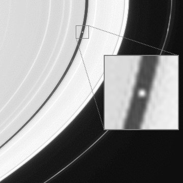 Original description: The Cassini spacecraft has sighted tiny Pan, a body only 20 kilometers (12 miles) across. Pan is responsible for parting the Encke Gap in Saturn's outer A ring. The 22 narrow angle camera images making up this movie and taken in visible light were part of a sequence designed specifically to search for Pan and for small moonlets near Saturn's F ring. The Encke Gap is a relatively narrow gap, approximately 270 kilometers (168 miles) wide. Pan was discovered in 1990 in images returned by the Voyager spacecraft in 1980 and 1981. This is the first time Pan has been seen since Voyager days. In order of appearance beginning with the upper left, the movie shows the moons Prometheus (102 kilometers or 63 miles across), Pandora (84 kilometers or 52 miles across), Pan and Atlas (32 kilometers or 20 miles across). A separate Cassini movie release (see PIA06076) highlights Cassini's recent recovery of Atlas. Cassini's closeness to Saturn makes it possible to now see that the F ring shepherd moons, Prometheus and Pandora, are not spherical. Also of note is the faint, discontinuous ring material in the Encke Gap ahead of Pan at the movie's start, and a great deal of complex knotted structure in the F ring. The view is upward from Cassini's southern vantage point beneath the ring plane. The moons visible here are orbiting Saturn in a plane that is tilted 66 degrees away from the viewer. These images were taken on June 21, 2004, from a distance of approximately 6.5 million kilometers (4 million miles) from Saturn. The image scale is approximately 39 kilometers (24 miles) per pixel. Contrast was enhanced in order to make Pan and Atlas more visible; as a result, the rings have a somewhat washed-out appearance.